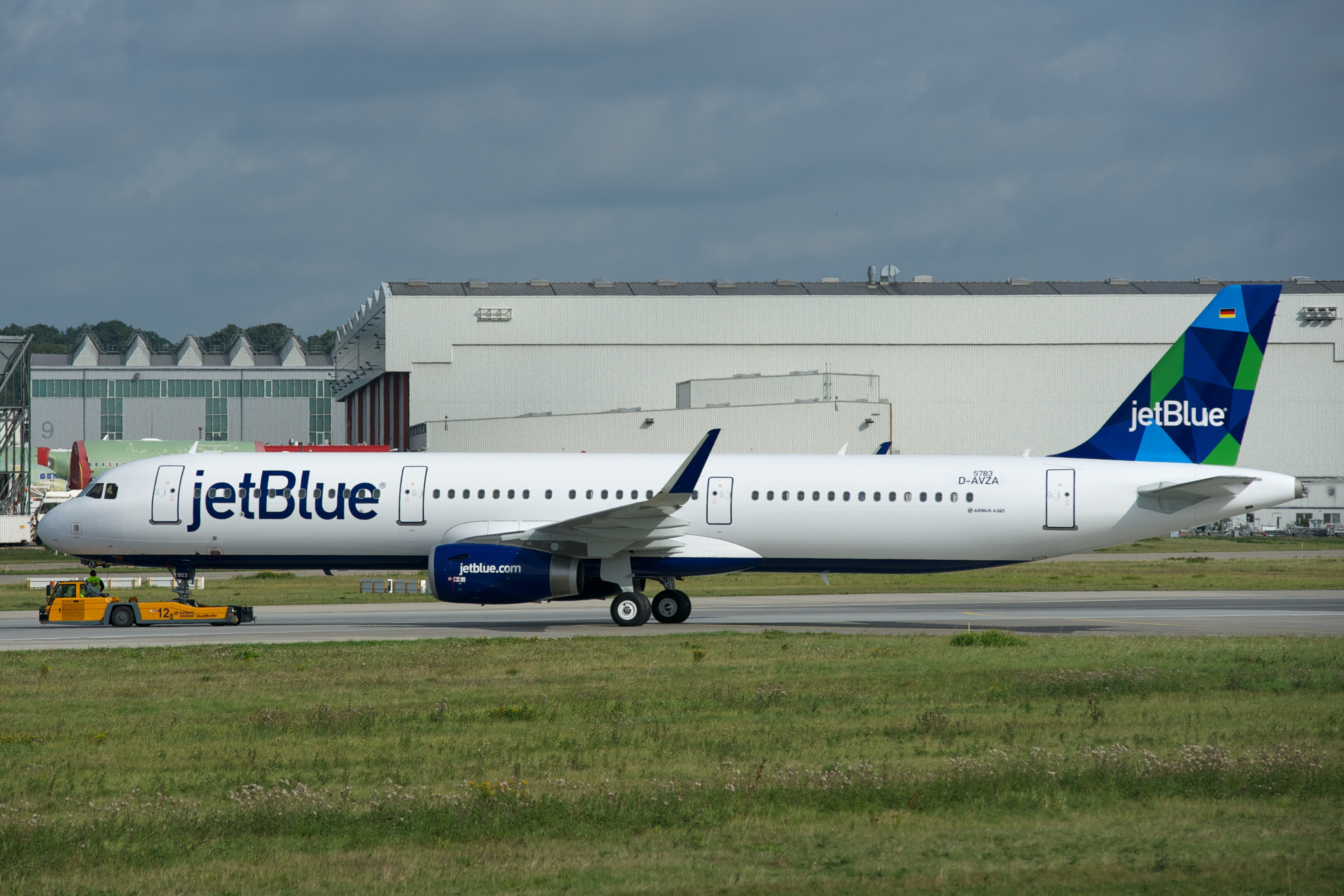 To N903JB. Airbus A321 for jetBlue, with Sharklets. Airbus Finkenwerder